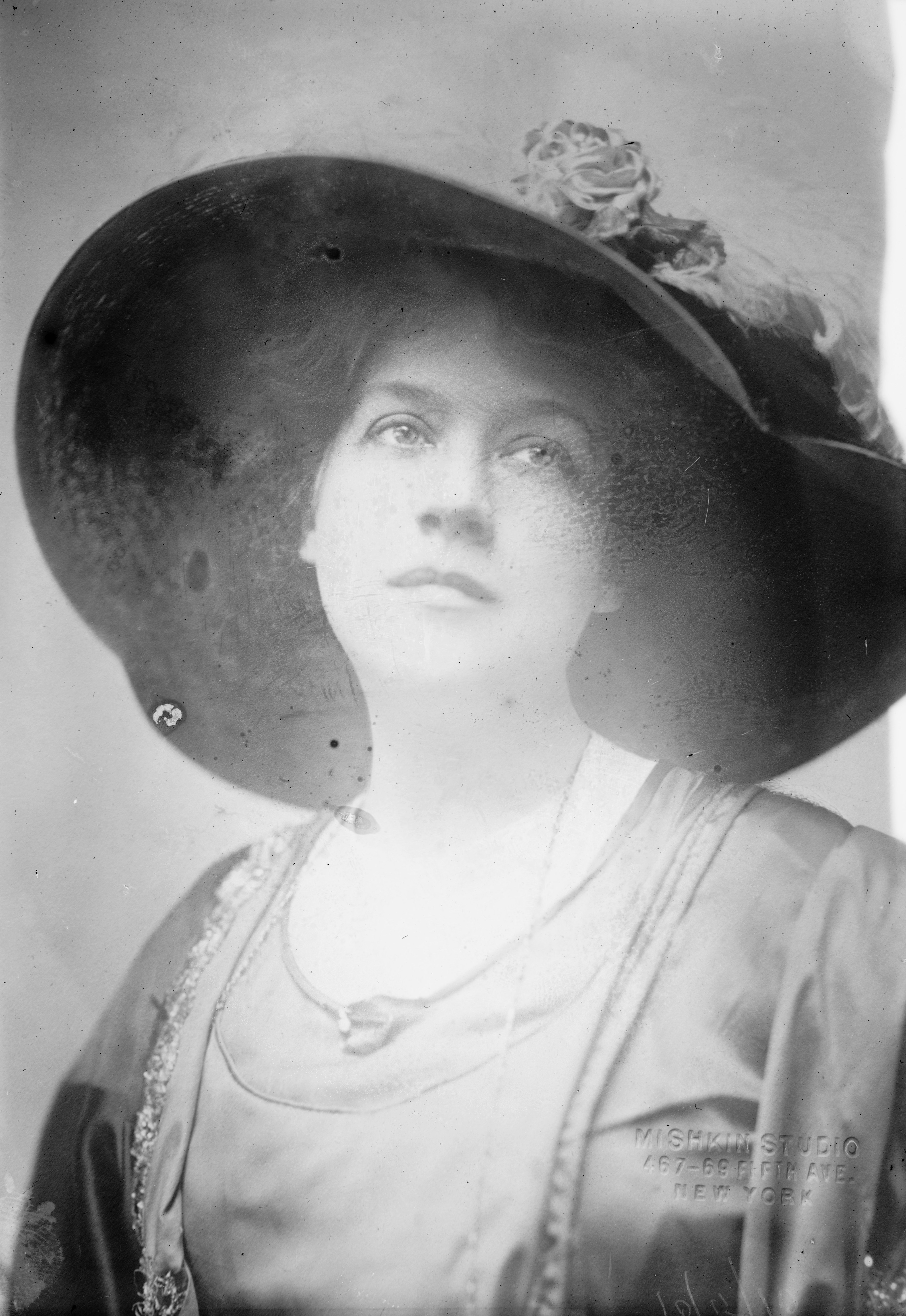 Ida Conquest,(1876 - 1937), actress of Broadway in the late 19th century and early 20th century.